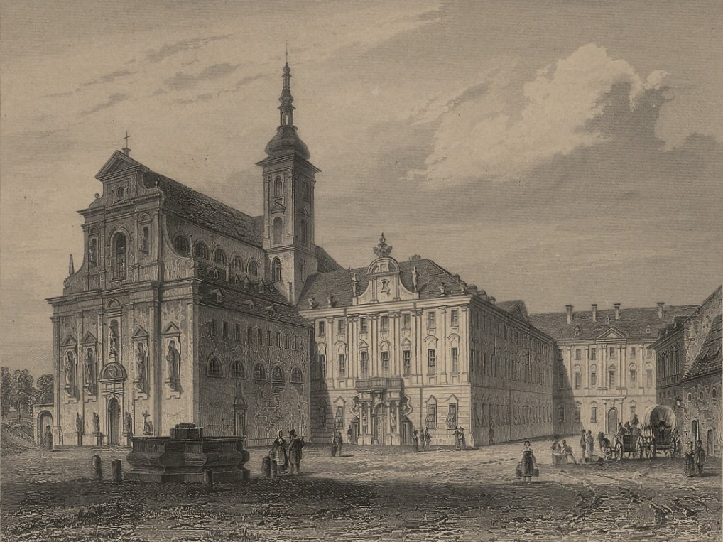 Saint Thomas church in Brno, Czech Republic.